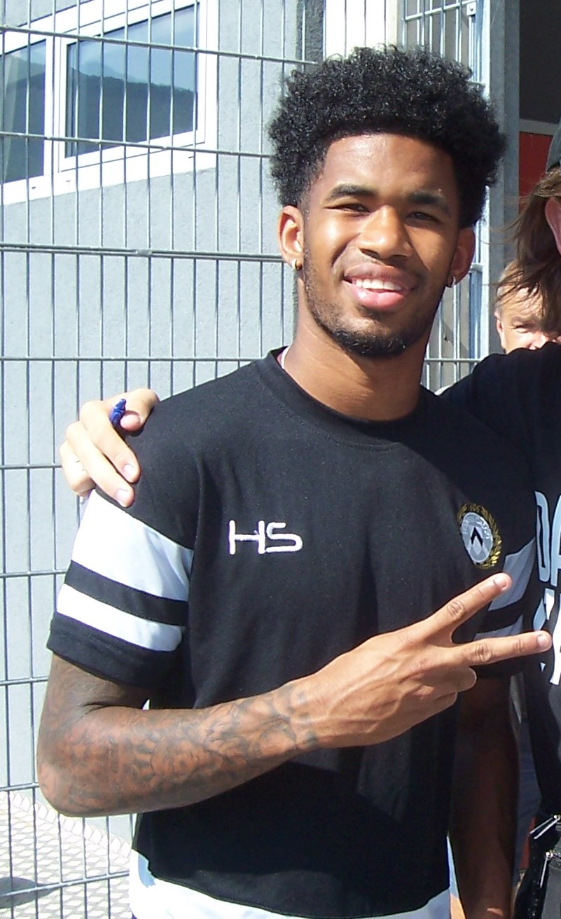 Ewandro during 2017 preseason by Udinese